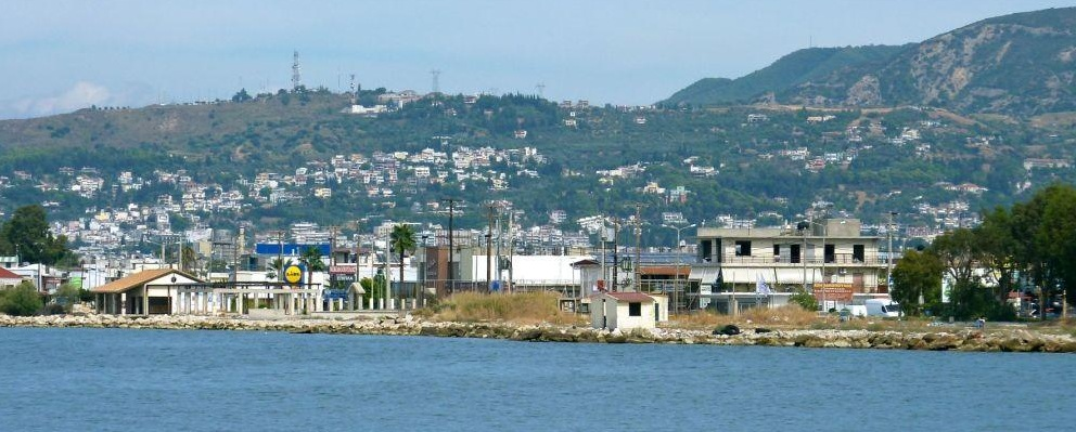 View of the waterfront of Patras at the height of Kokkinos Milos, neighborhood of Patras, Achaia, Greece. The foto was taken from the fishing port in "Eva" ("Stasi Tsirogianni"), a location in Paralia Patras.